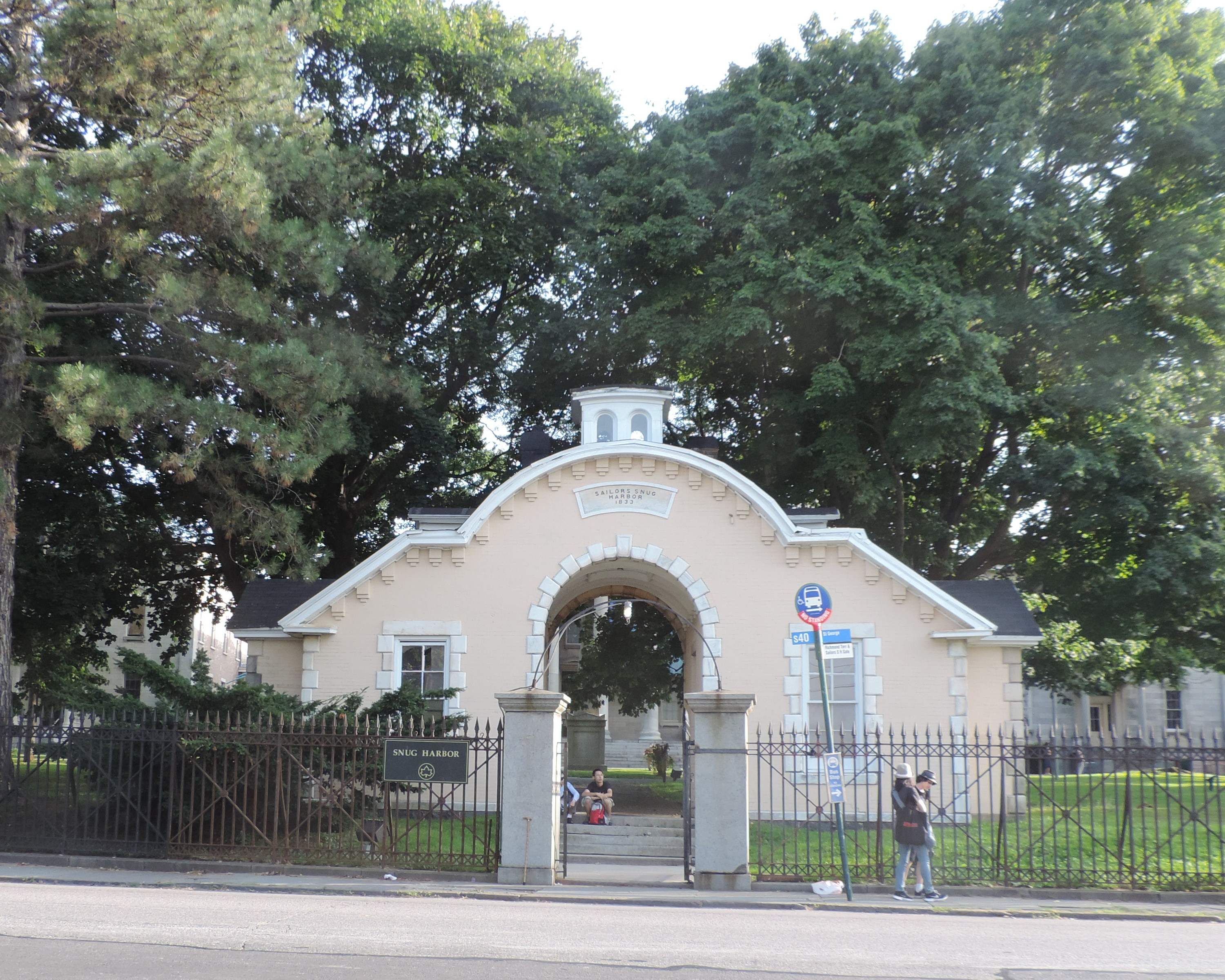 Looking south across Richmond Terrace, late on a mostly sunny day.